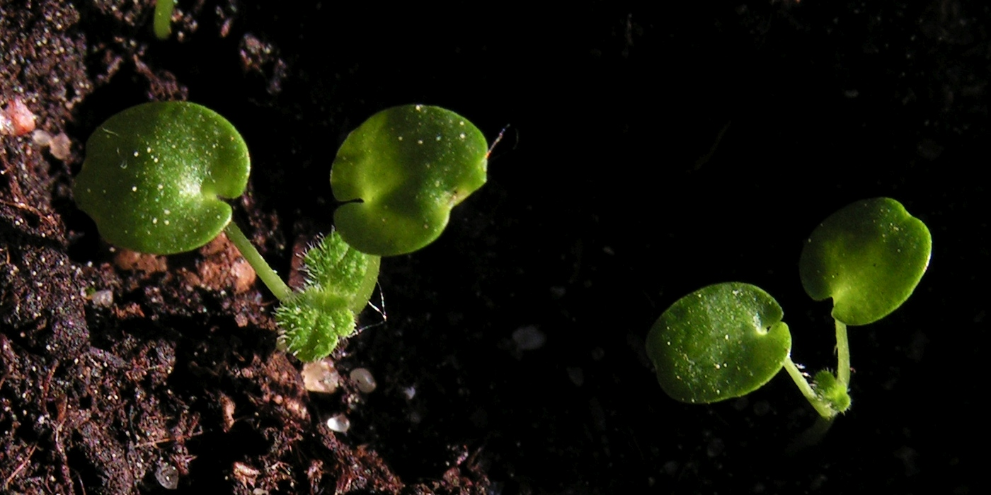 Young seedlings of Common motherwort. Height of the highest plant is 10 mm.